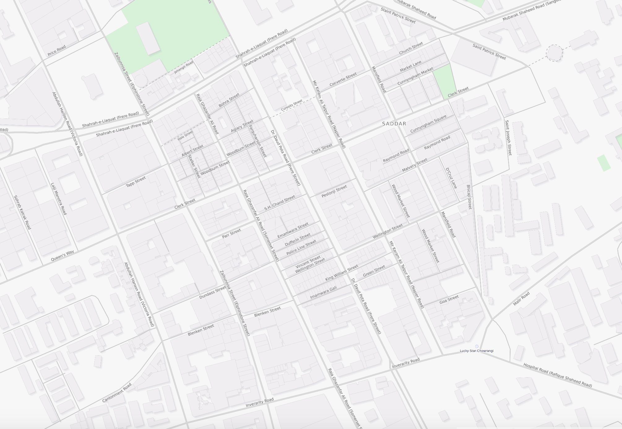 Street map of Saddar, Karachi